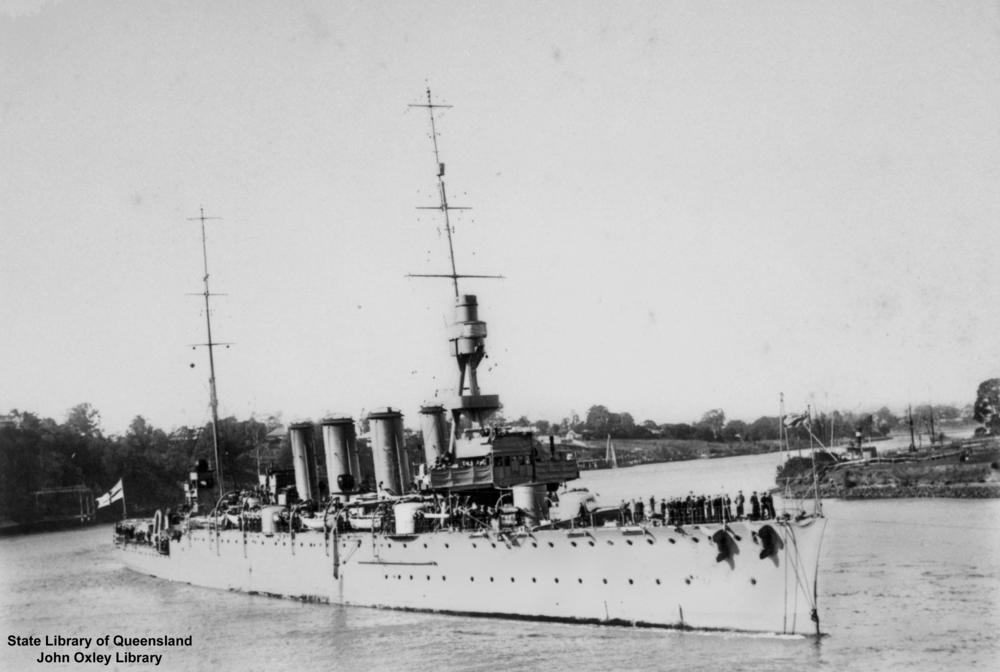 Brisbane (ship). H.M.A.S. Brisbane in 1919. See also: The Queenslander, 28 June, 1919.